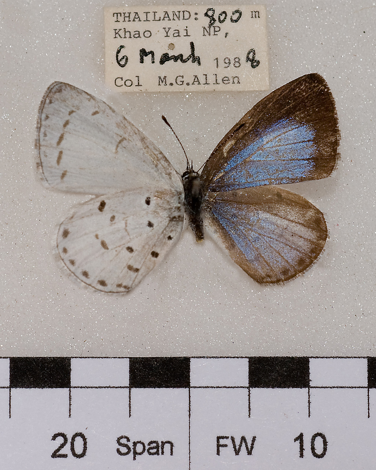 Udara selma cerima, female, set specimen, Thailand